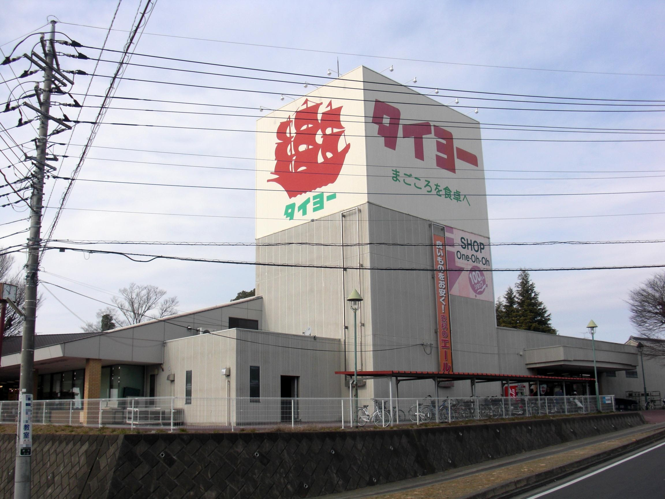 this is a supermarket in Ishioka, Ibaraki, Japan.